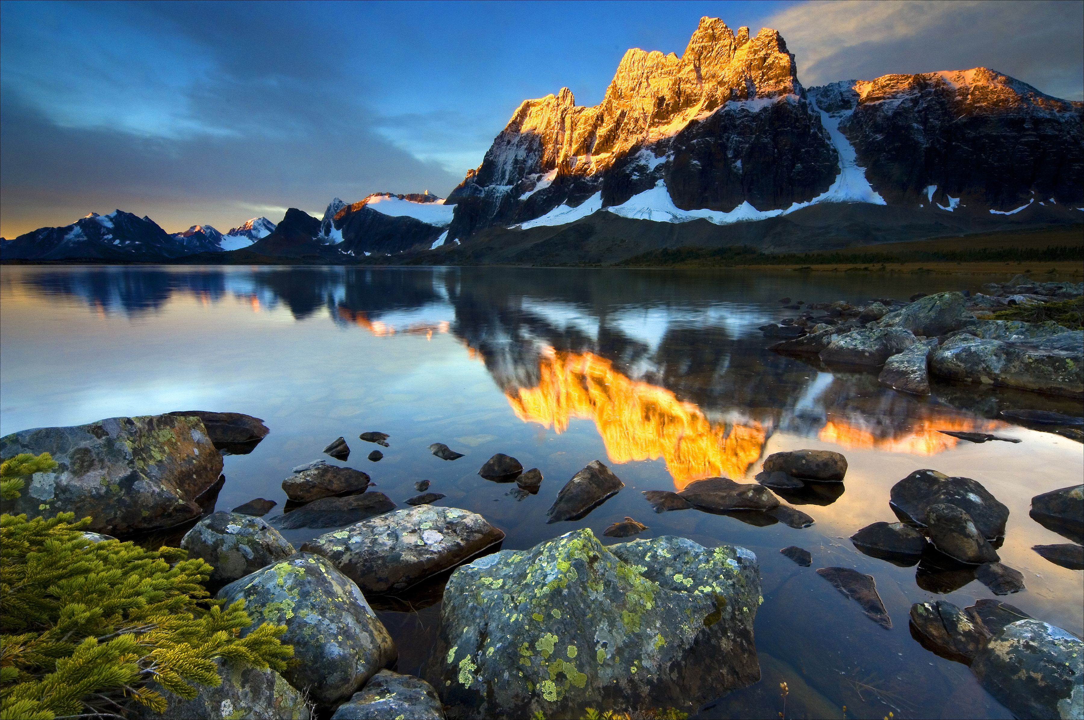 Rampart Moutains behind Amethyt Lake in Jasper National Park, Alberta, Canada